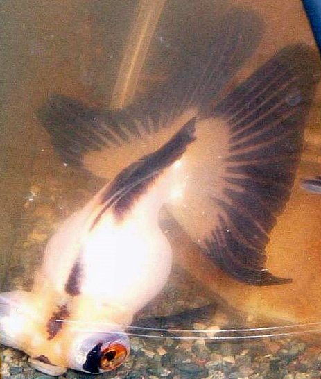 Panda Moor (goldfish)